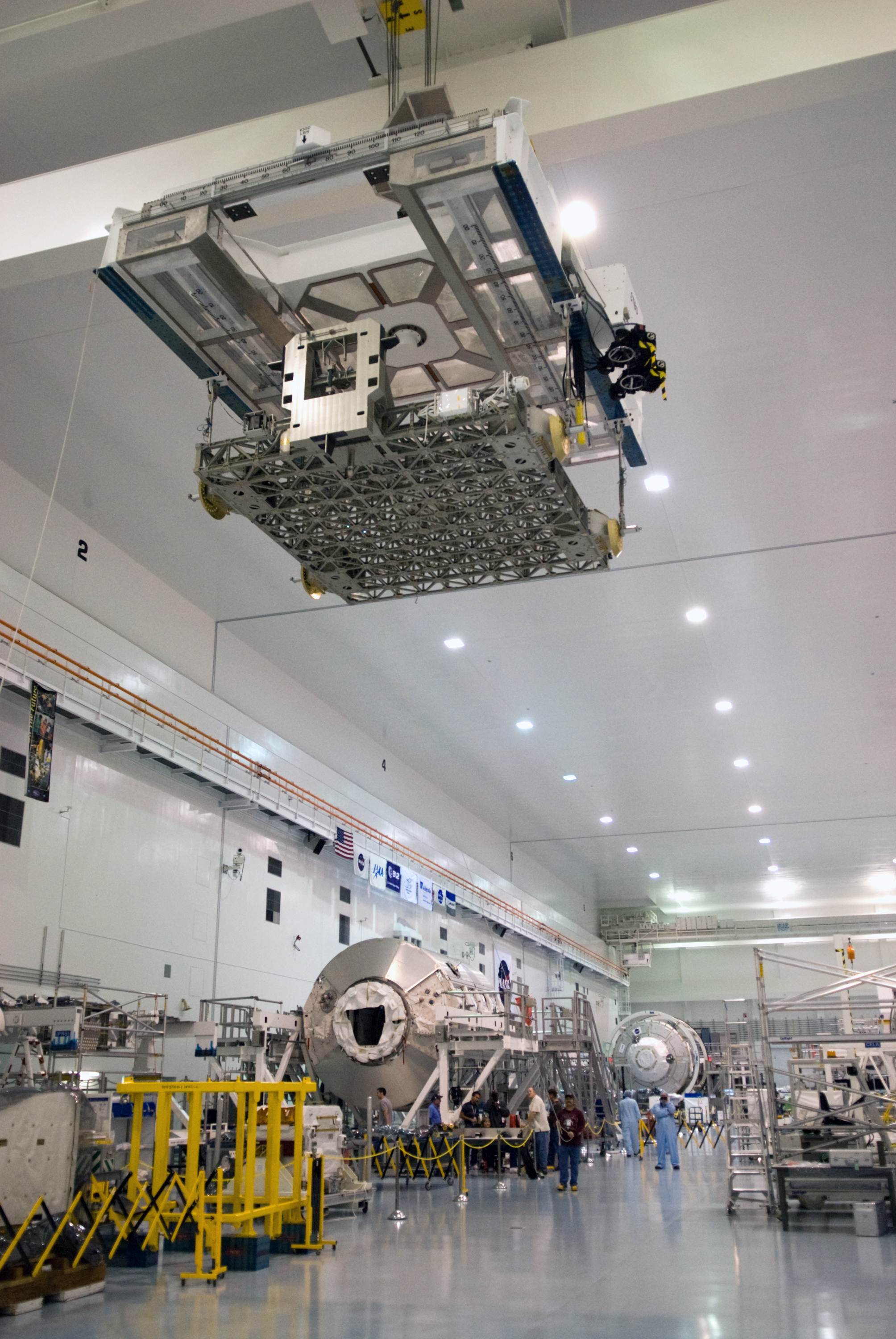 CAPE CANAVERAL, Fla. - In the Space Station Processing Facility at NASA's Kennedy Space Center in Florida, the newly arrived ExPRESS Logistics Carrier 3, or ELC-3, is lifted high above the clean room floor. ELC-3 and the Alpha Magnetic Spectrometer are the primary payloads for space shuttle Endeavour's STS-134 mission to the International Space Station. The STS-134 crew will also deliver spare parts including two S-band communications antennas, a high pressure gas tank, additional spare parts for Dextre and micrometeoroid debris shields. Endeavour's launch is targeted for July 29, 2010. For information on the STS-134 mission objectives and crew, visit